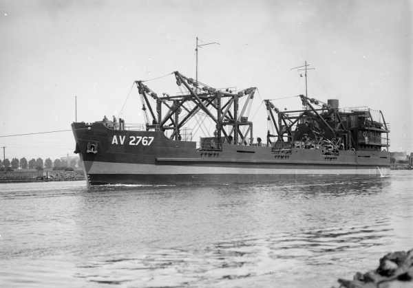 Australian Army ship AV2767 Crusader